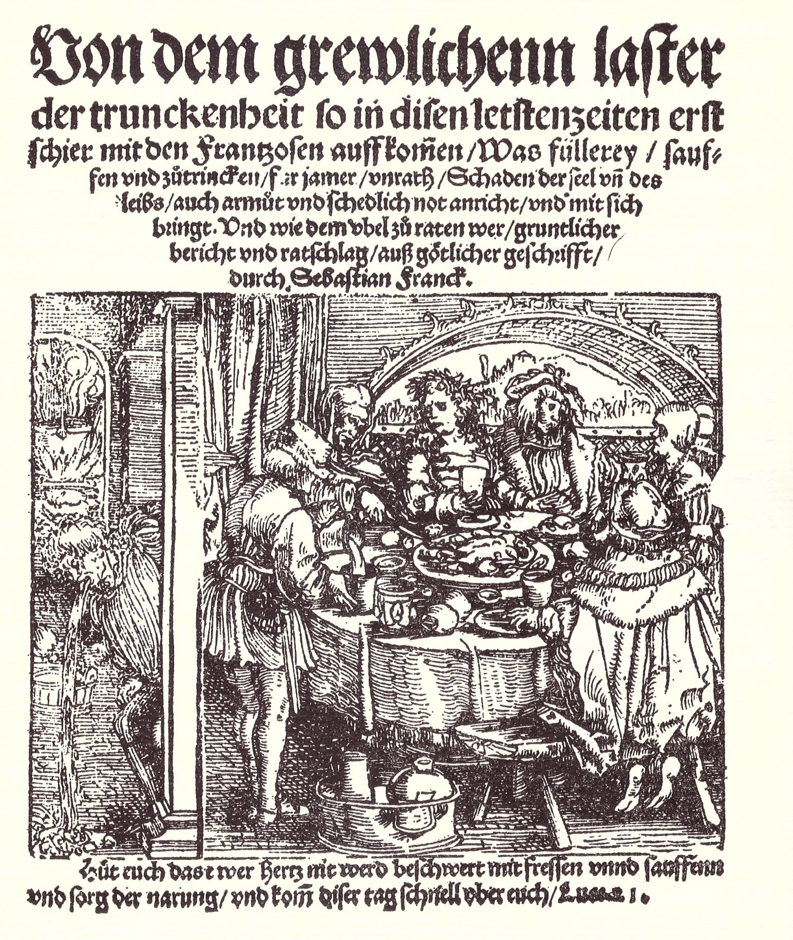 The title page of the treatise „On the horrible vice of drunkenness“.